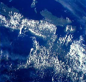 Looking west on April, 12, 1993. Biliran (right center) is a compound volcano that makes a large mountainous island just north of the island of Leyte (left center to center). The large island of Samar is in the bottom right. Biliran's single historic eruption was from a flank vent in 1939. There are five solfatara fields on the island. The solfatara on the west side of Mt. Guinon contained more than 400 tones of sulfur in 1880.